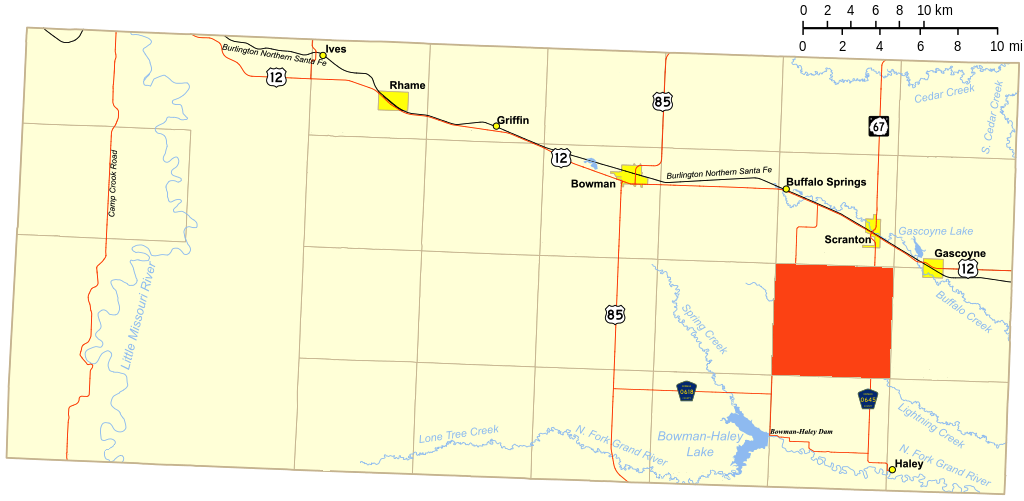 Map of Bowman County, North Dakota, with Whiting Township highlighted